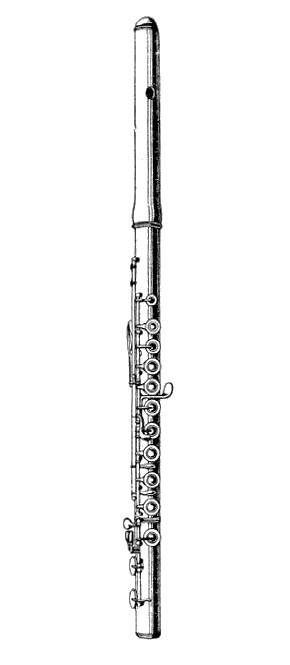 Fuvola - Flute; rotated version of File:Western concert flute.jpg.